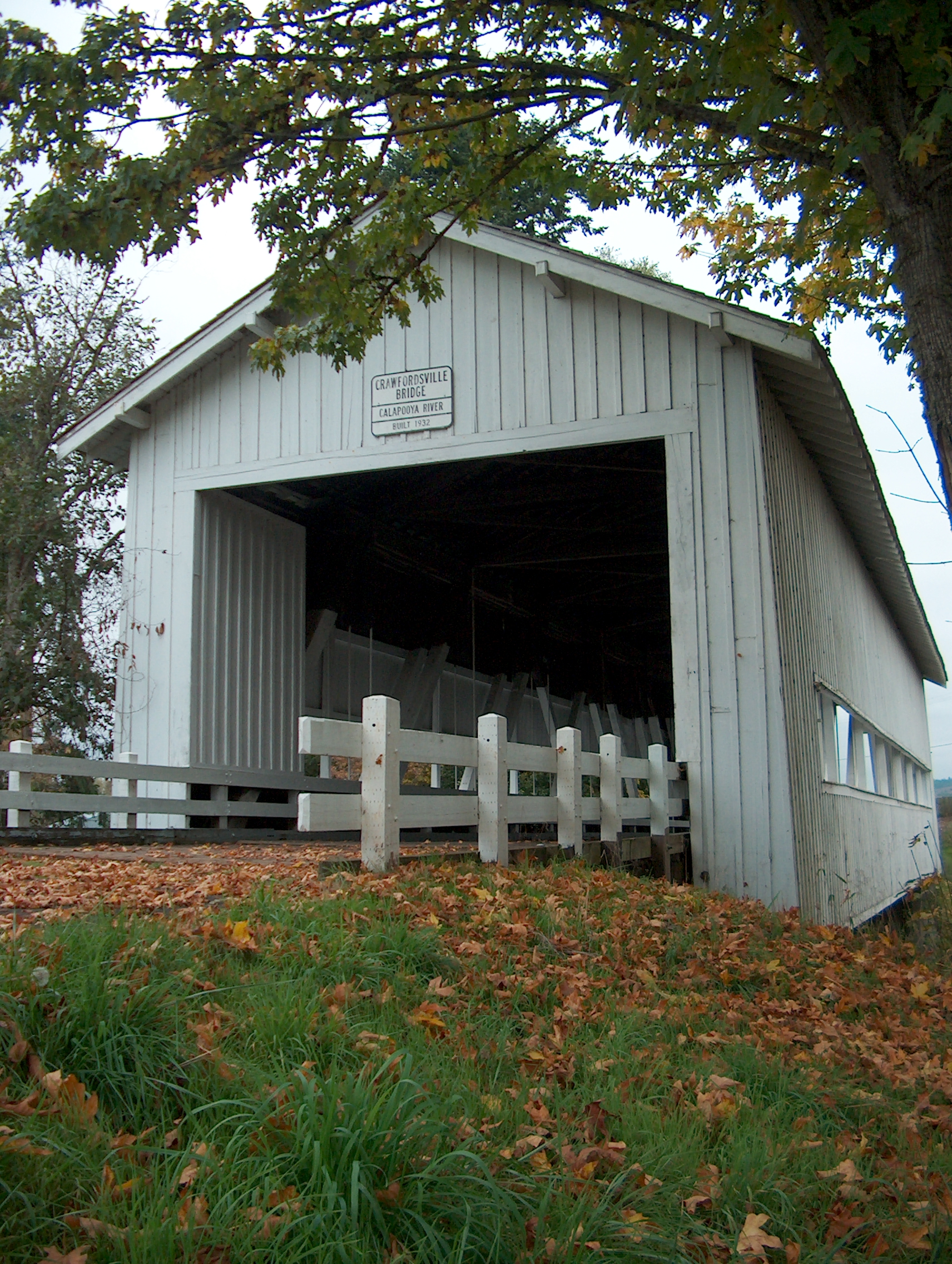 Crawfordsville Covered Bridge spanning the Calapooia River west of Crawfordsville, Oregon